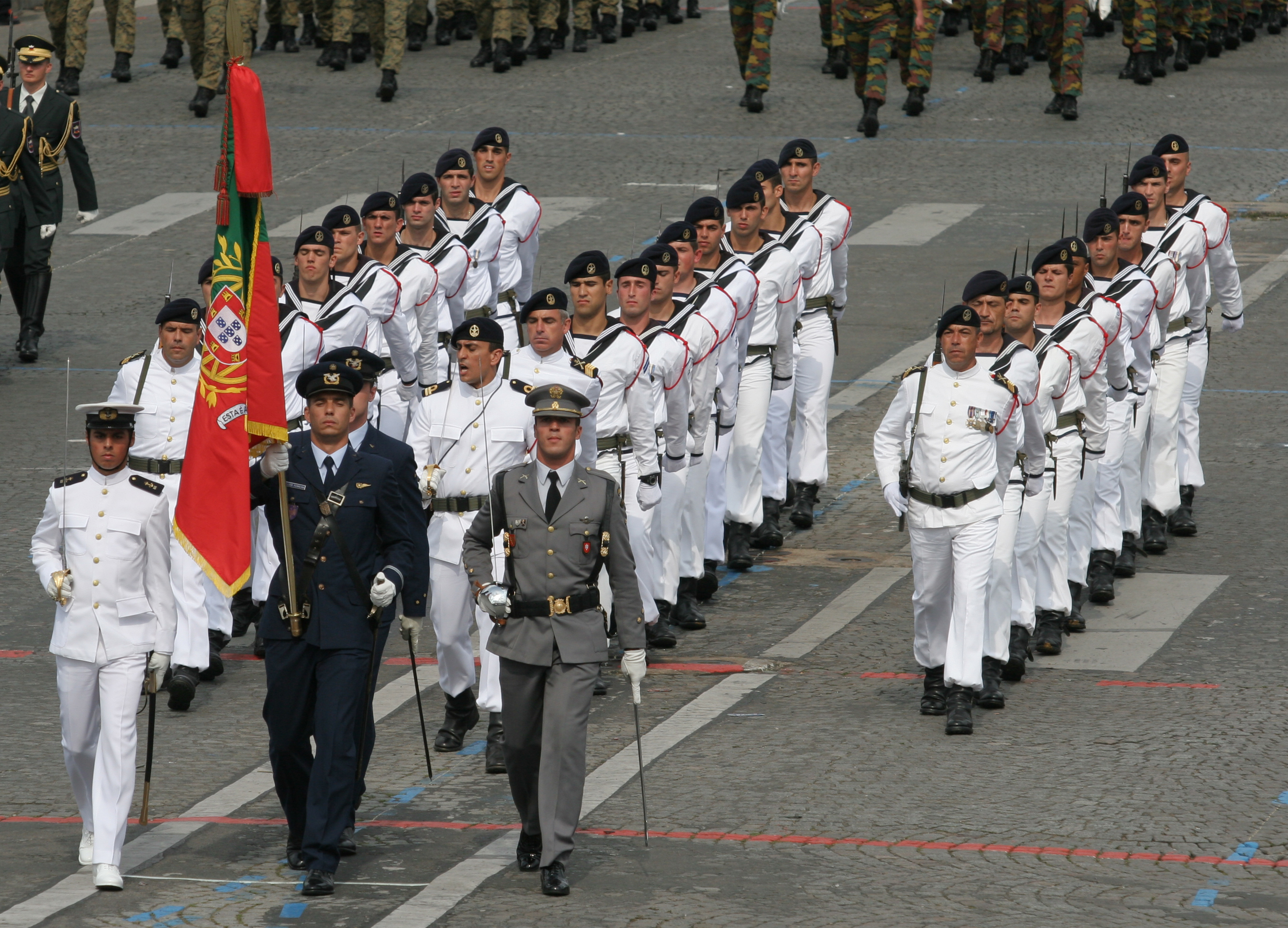 A detachment of the Portuguese Marine Corps marching in the 2007 Bastille Day Military Parade on the Avenue des Champs Elysées in Paris